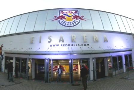 Photo of Eisarena Salzburg